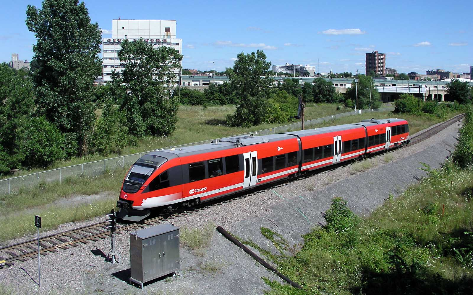 A Bombardier Talent Diesel Multiple Unit in use as an urban light rail vehicle in Ottawa, Canada.